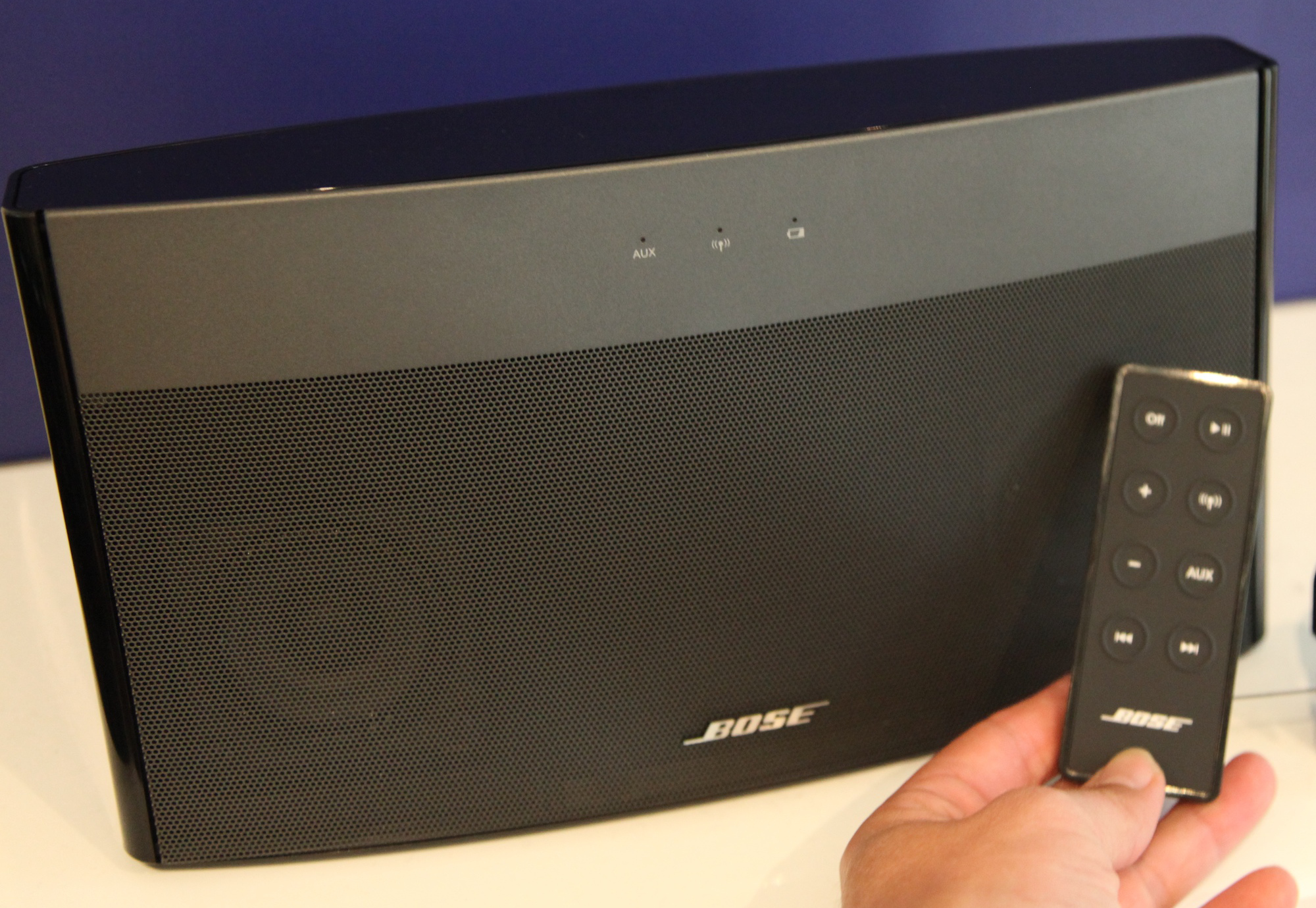 Bose SoundLink Wireless music system